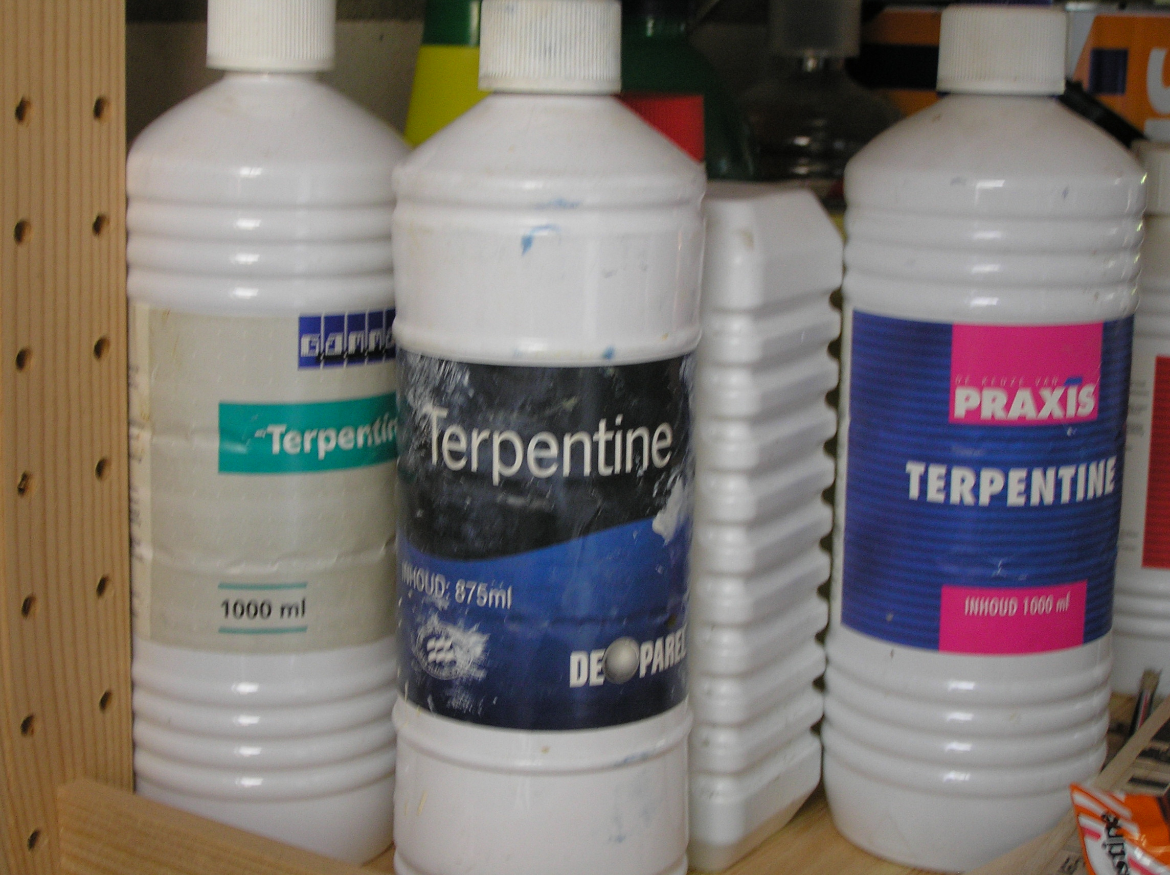 Botlles with turpentine